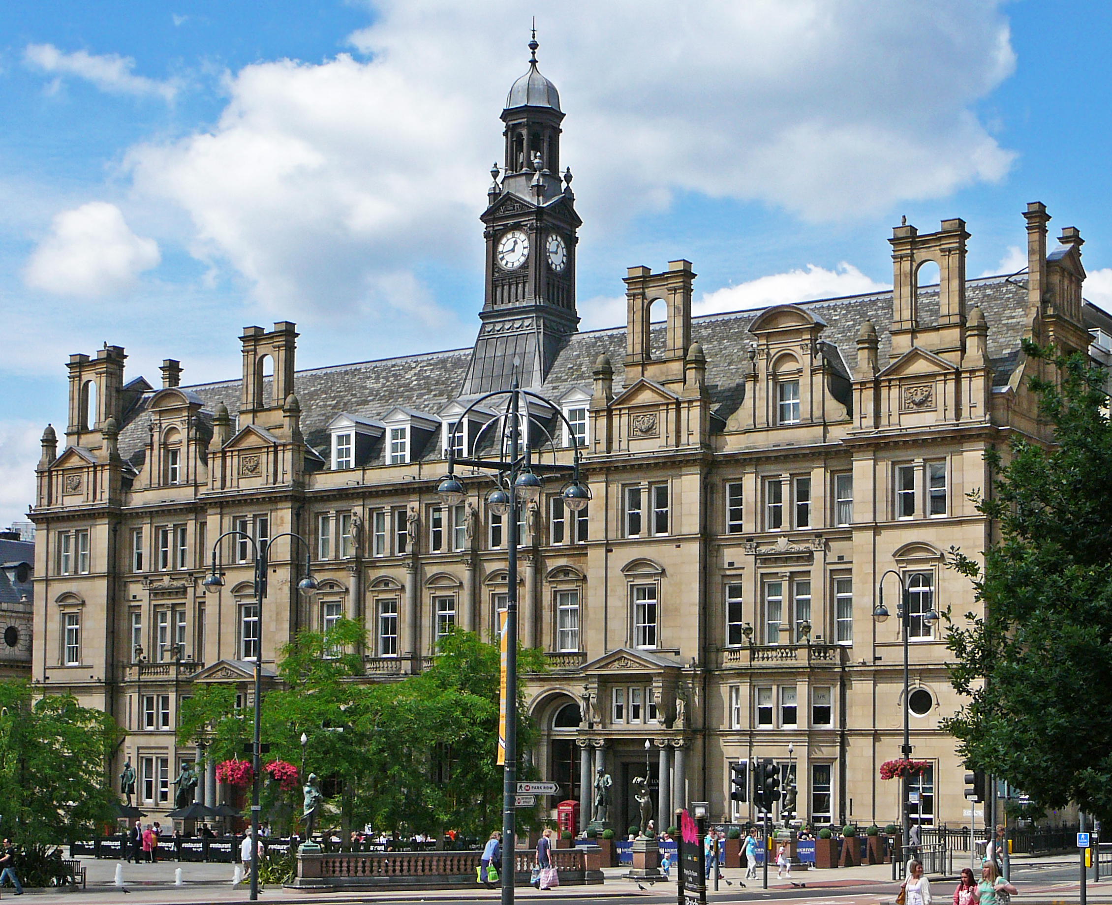 General Post Office, City Square, Leeds (former)